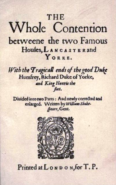 Title page of The Whole Contention Between the Two Famous Houses of York and Lancaster published by William Jaggard and Thomas Pavier in 1619.